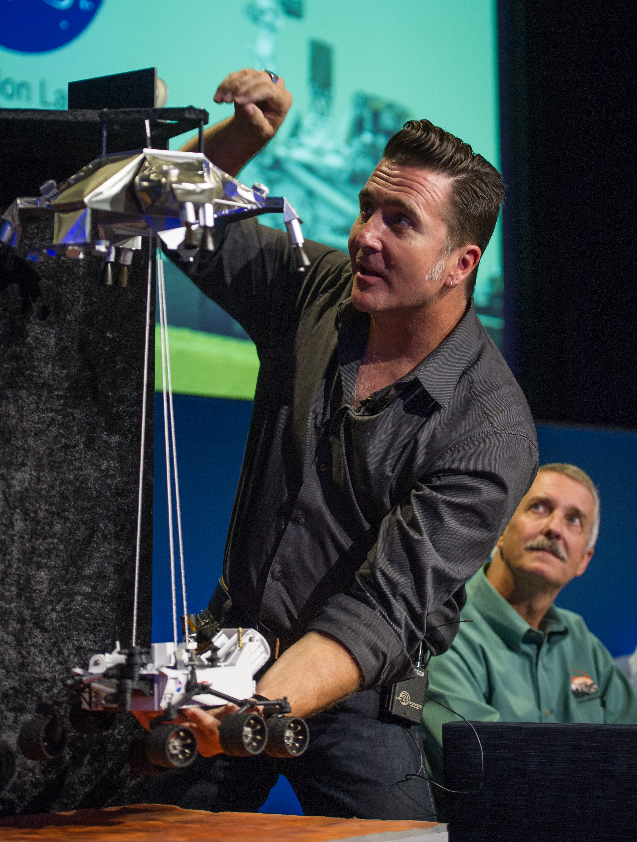 Adam Steltzner, Mars Science Laboratory (MSL) entry, descent and landing phase lead, Jet Propulsion Laboratory, demonstrates how the MSL spacecraft will land the Curiosity rover on Mars during a briefing held at the Jet Propulsion Laboratory on Thursday, August 2, 2012 in Pasadena, Calif. The MSL Rover named Curiosity was designed to assess whether Mars ever had an environment able to support small life forms called microbes. Curiosity is due to land on Mars at 10:31 p.m. PDT on Aug. 5, 2012 (1:31 a.m. EDT on Aug. 6, 2012).